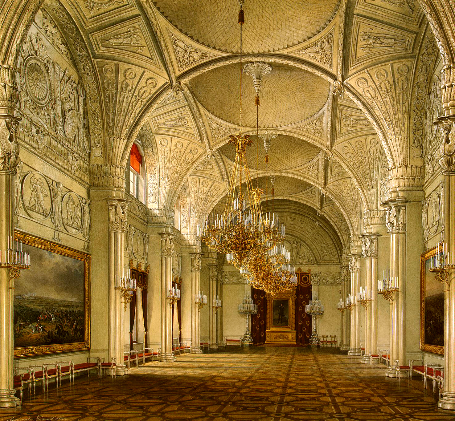 Interiors of the Winter Palace. The Alexander Hall